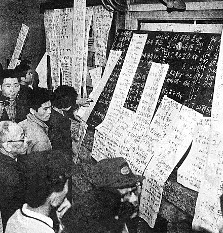 Mikawashima train crash